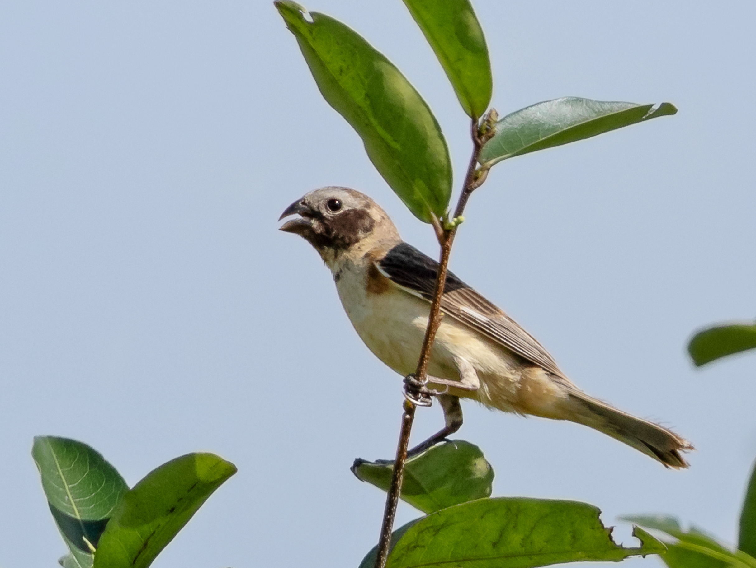 Ibera Seedeater (male); Aquidauana, Mato Grosso do Sul, Brazil